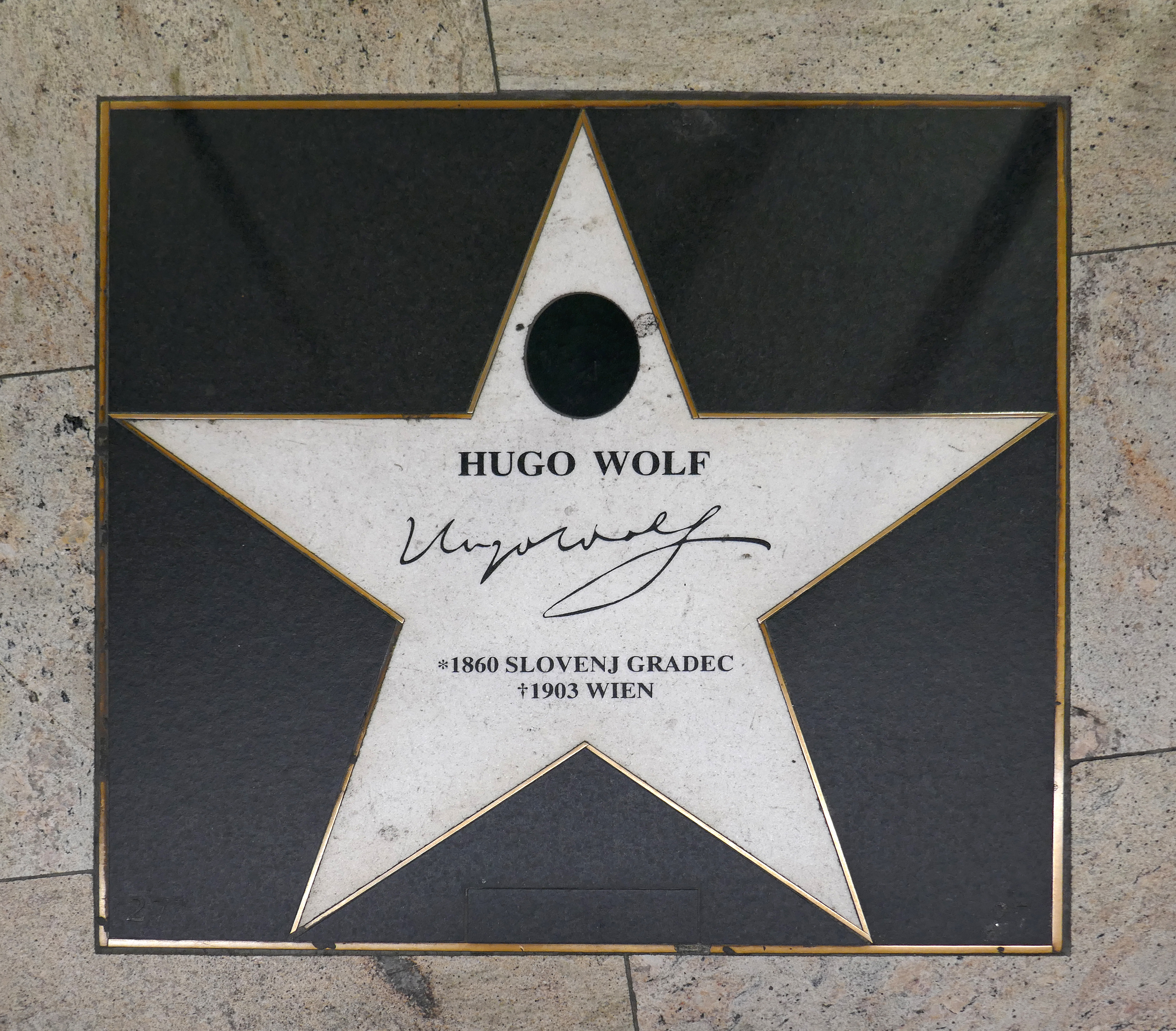 Walk of Fame Vienna Hugo Wolf.